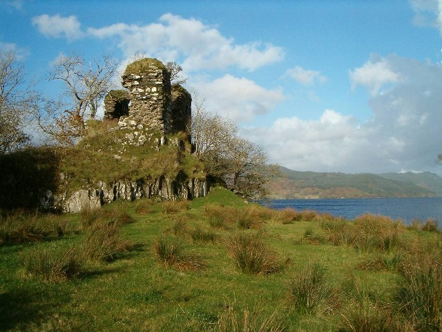 Finchairn Castle, Loch Awe, Argyll.